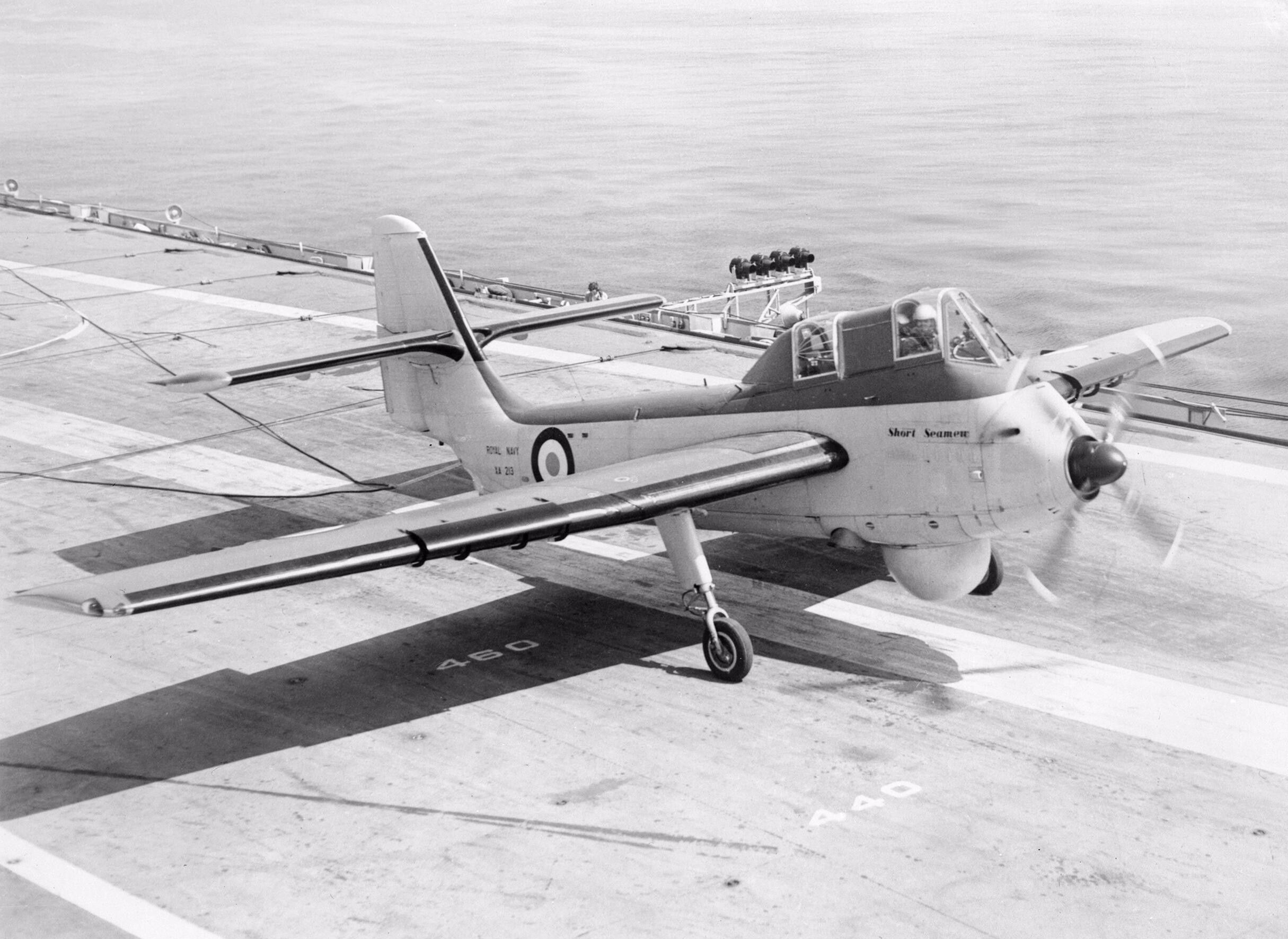 A Short Seamew AS.1 anti-submarine aircraft lands aboard the Royal Navy aircraft carrier HMS Bulwark (R08) during trials, 15 July 1955.